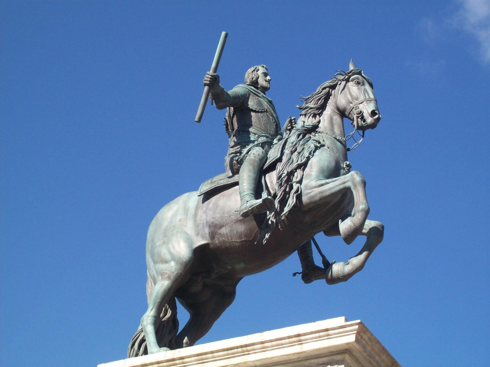 Bronze equestrian statue of Philip IV of Spain, made by Pietro Tacca between 1634 and 1640. It´s part of the monument at the Plaza de Oriente (square) in Madrid (Spain) inaugurated in 1843.